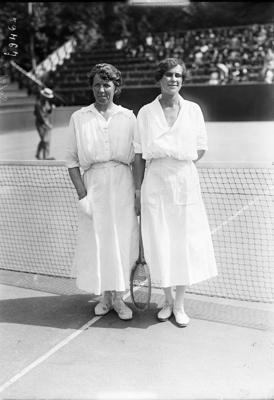 English tennis players Dorothy Holman (1883-1968) and Phyllis Satterthwaite (1889-1962) at the 1920 World Hardcourt Championships at Paris. Picture was taken at the ladies' doubles final.